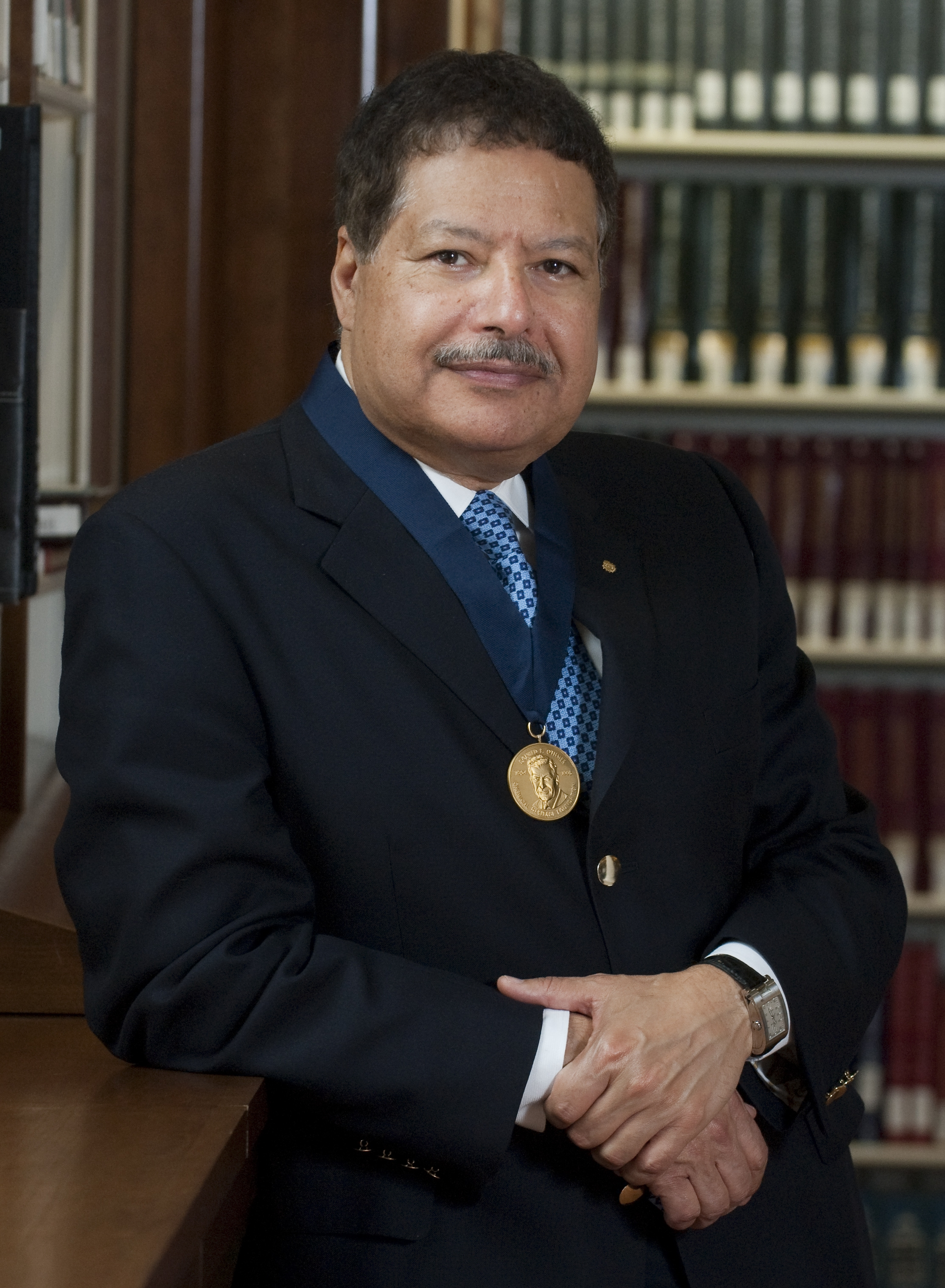 Photograph of Ahmed Zewail, with the Othmer Gold Medal, awarded 14 May 2009, at the Chemical Heritage Foundation.